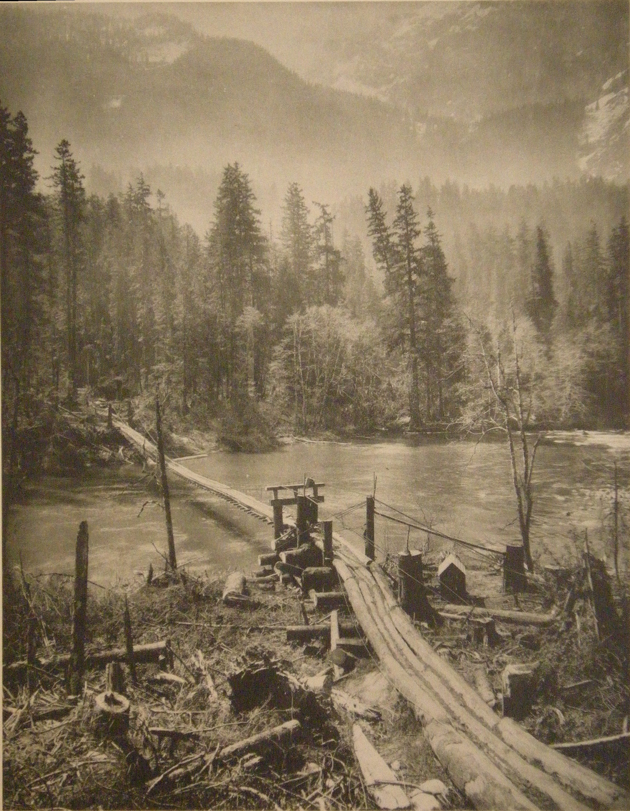 "The Loggers' Bridge Suspended Over the Skykomish".